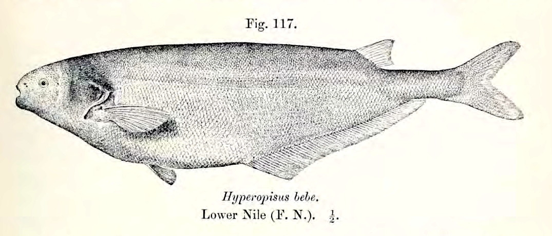 Hyperopisus bebe (Lacepède, 1803)